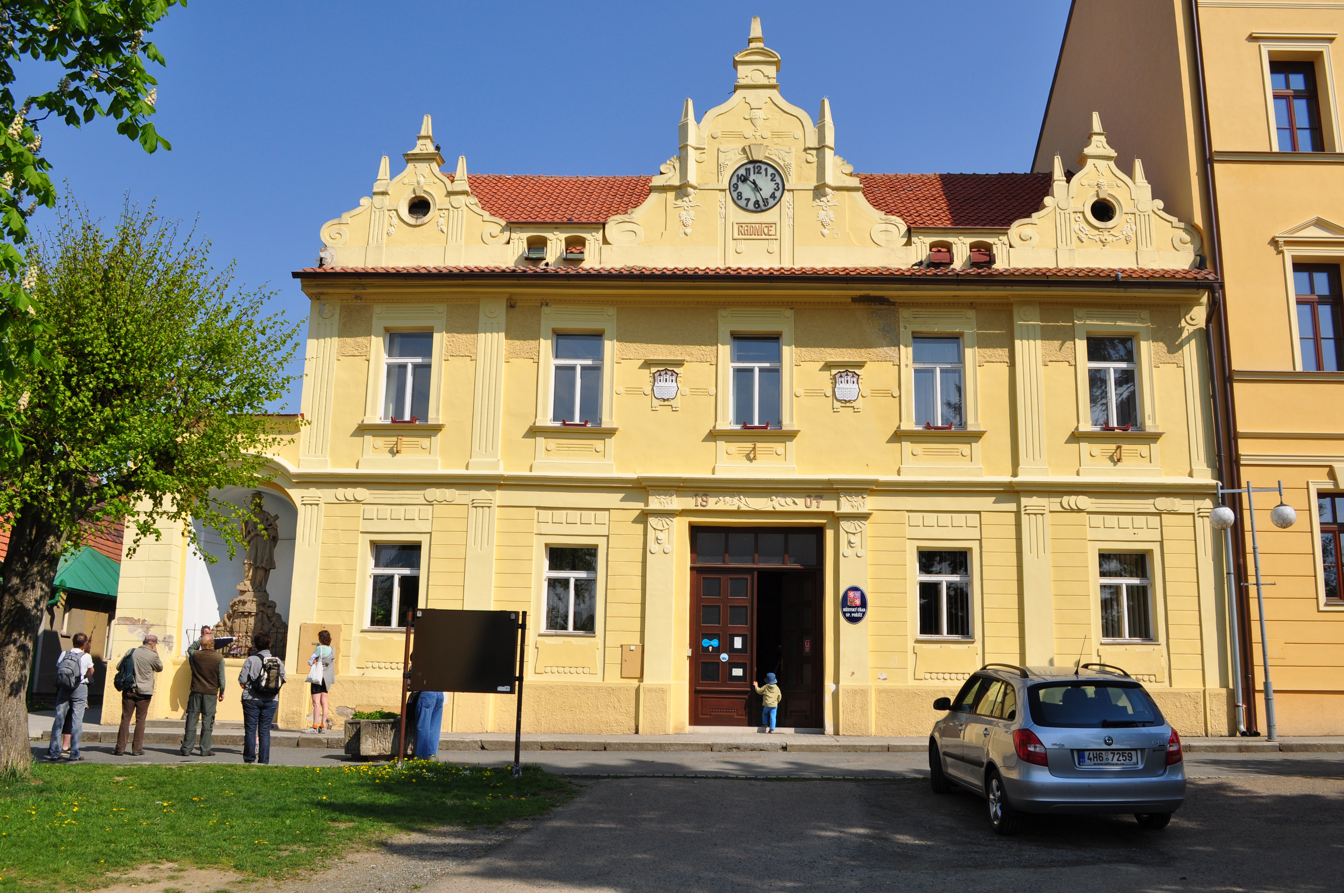 City Hall